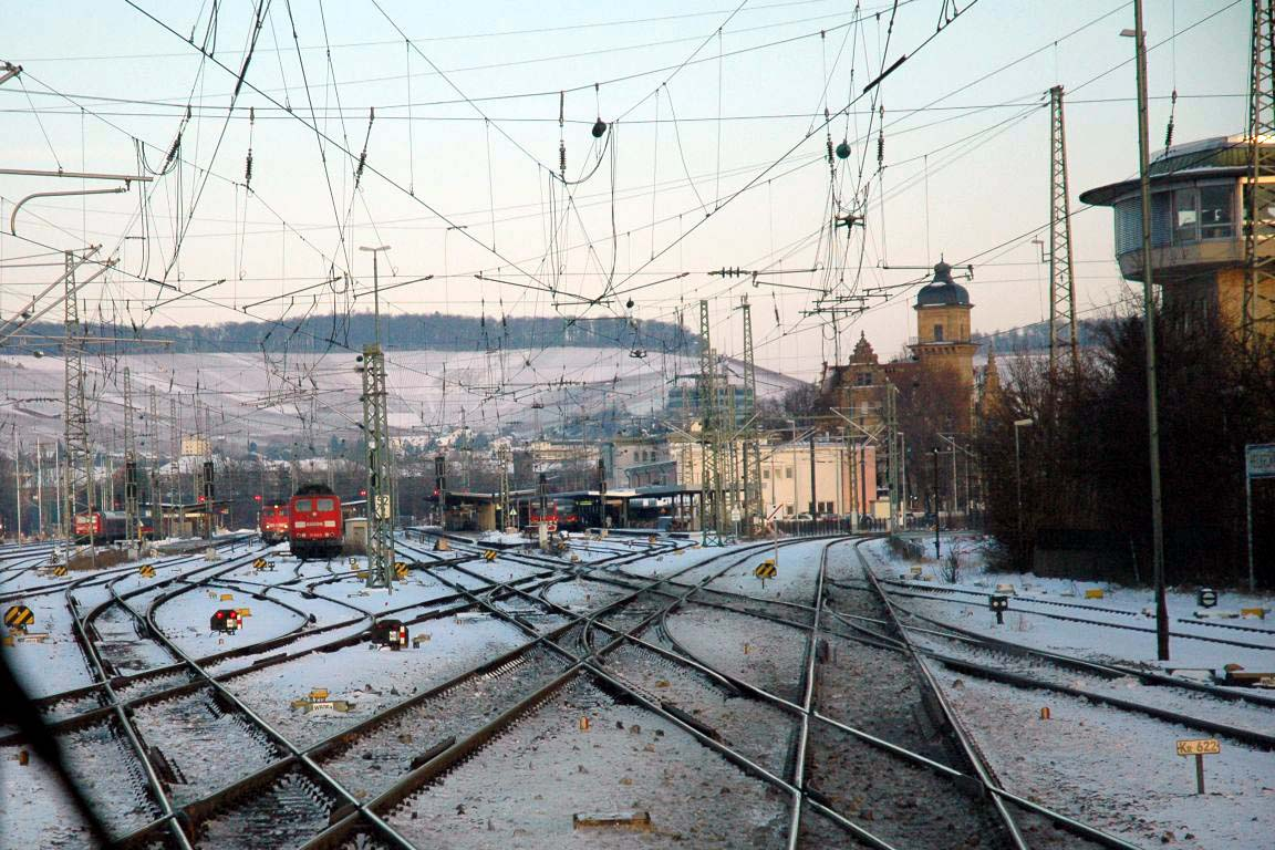 Crossing of the Kraichgaubahn tracks at Heilbronn main station for reaching the city.